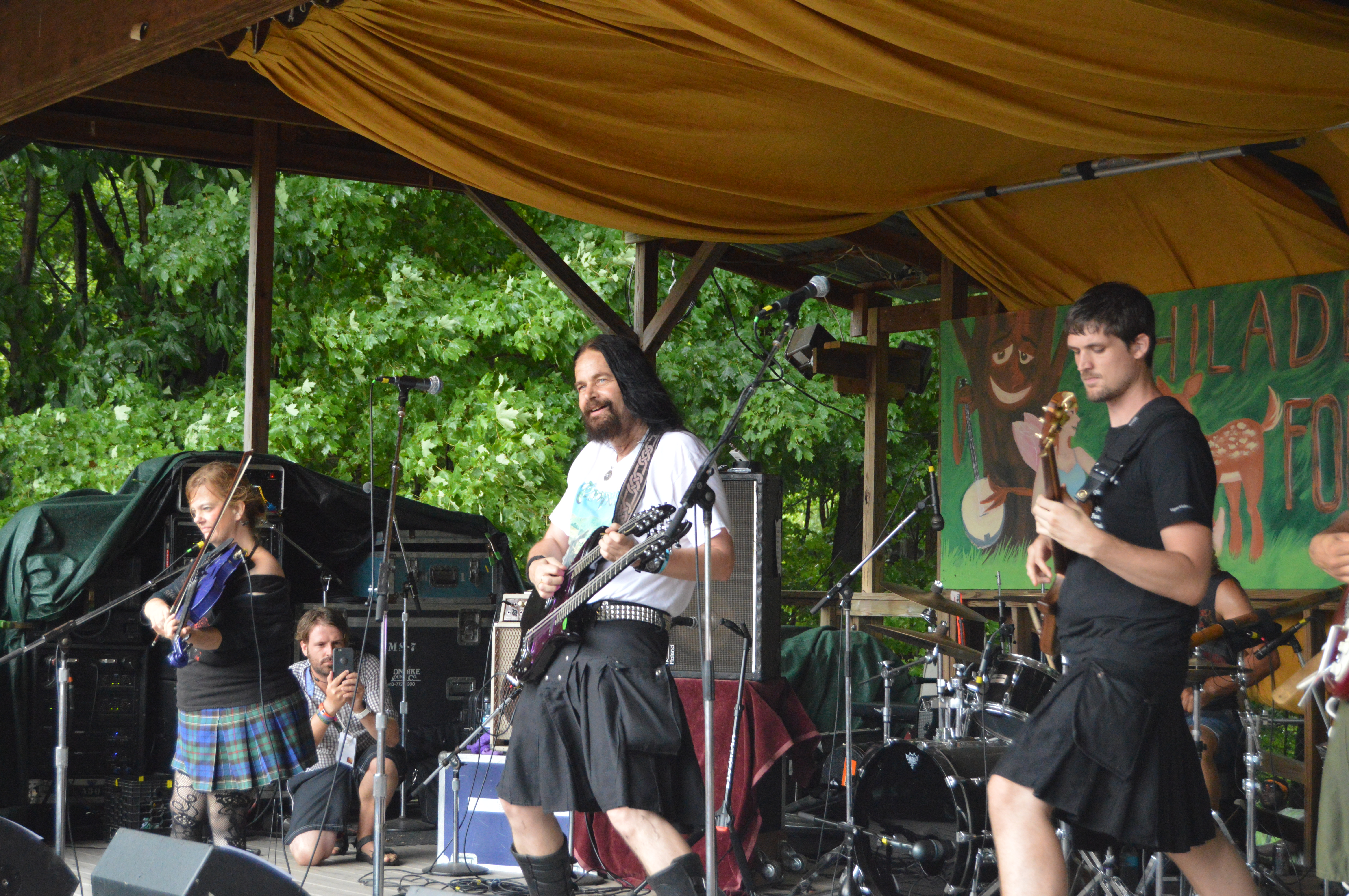 Tempest performing at Celtic Afternoon